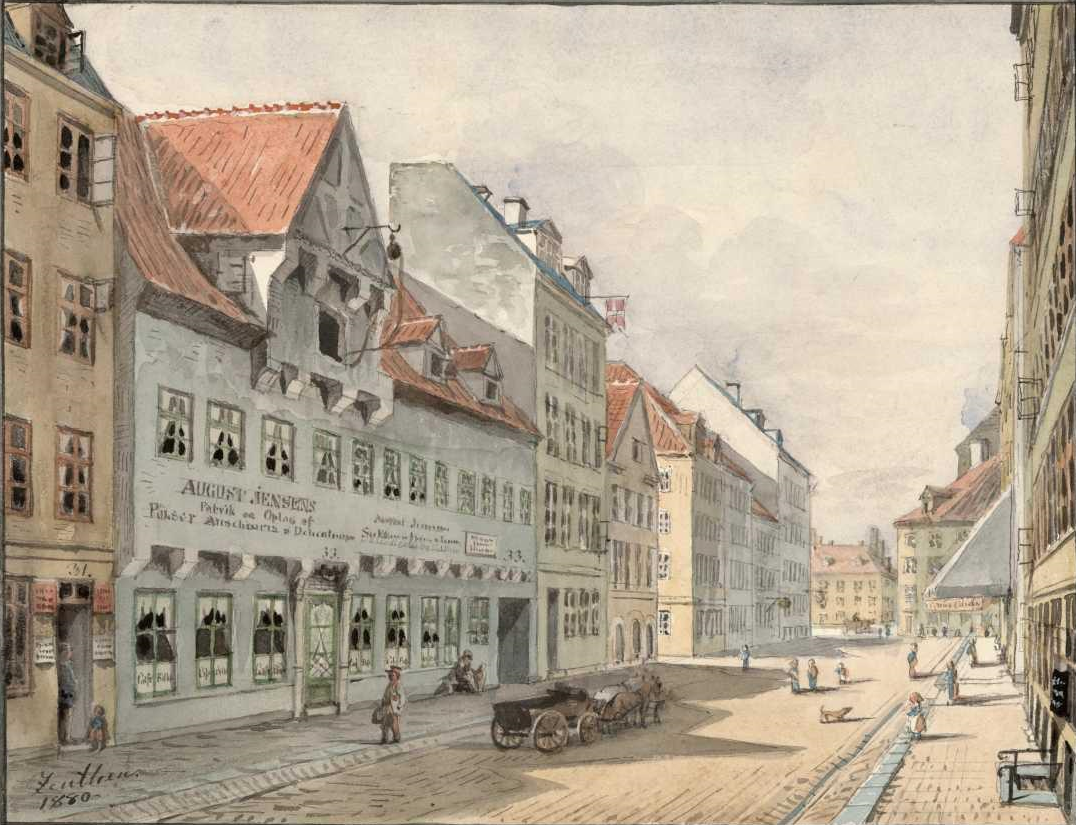 Lille Kongensgade in Copenhagen, Denmark